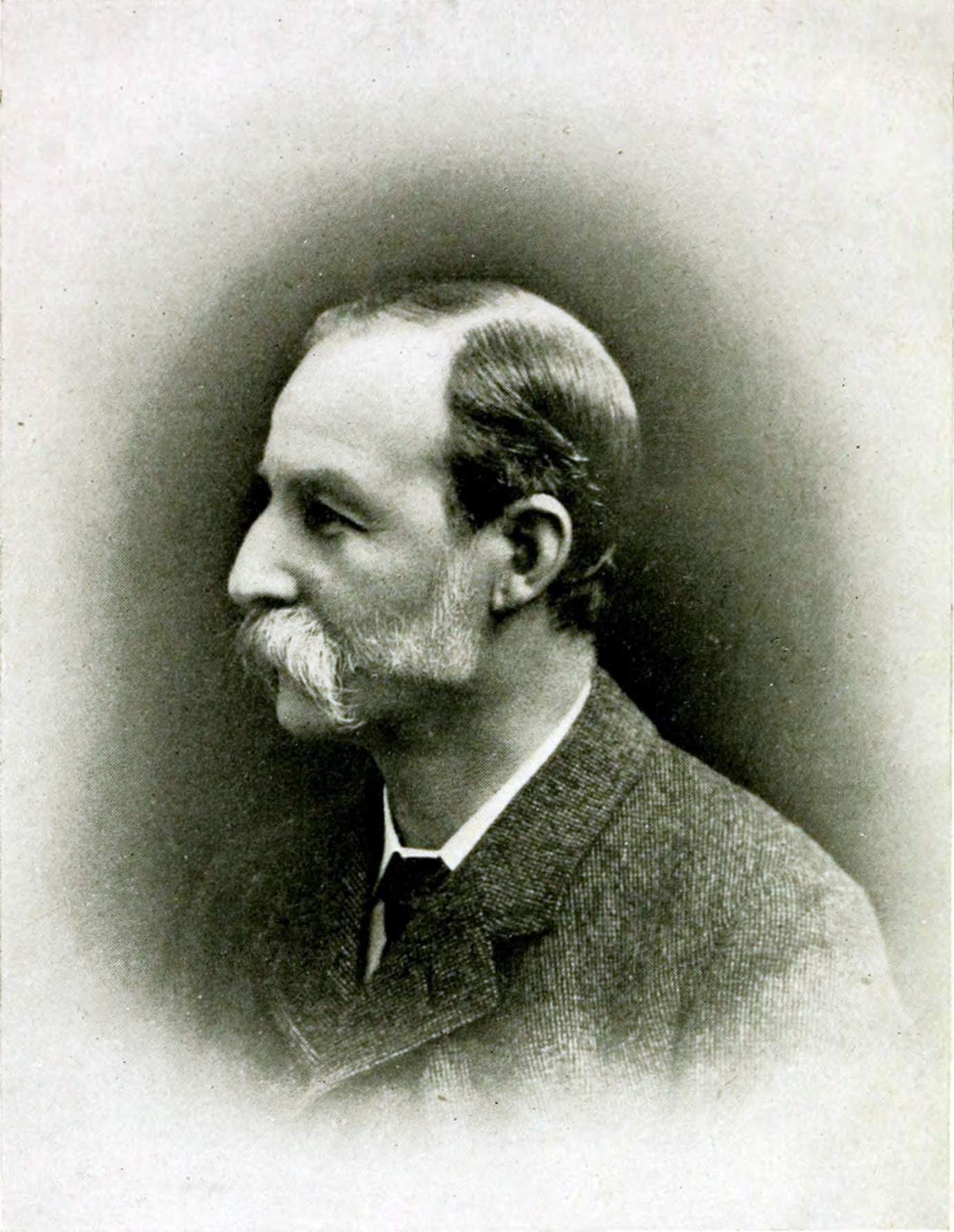 Portrait of Thomas Hanbury from: Alwin Berger (1912). Hortus Mortolensis : enumeratio plantarum in horto Mortolensi cultarum: Alphabetical catalogue of plants growin in the garden of the late Sir T. Hanbury at La Mortola, Ventimiglia, Italy. London: West, Newman. UIN: BLL01007552011.